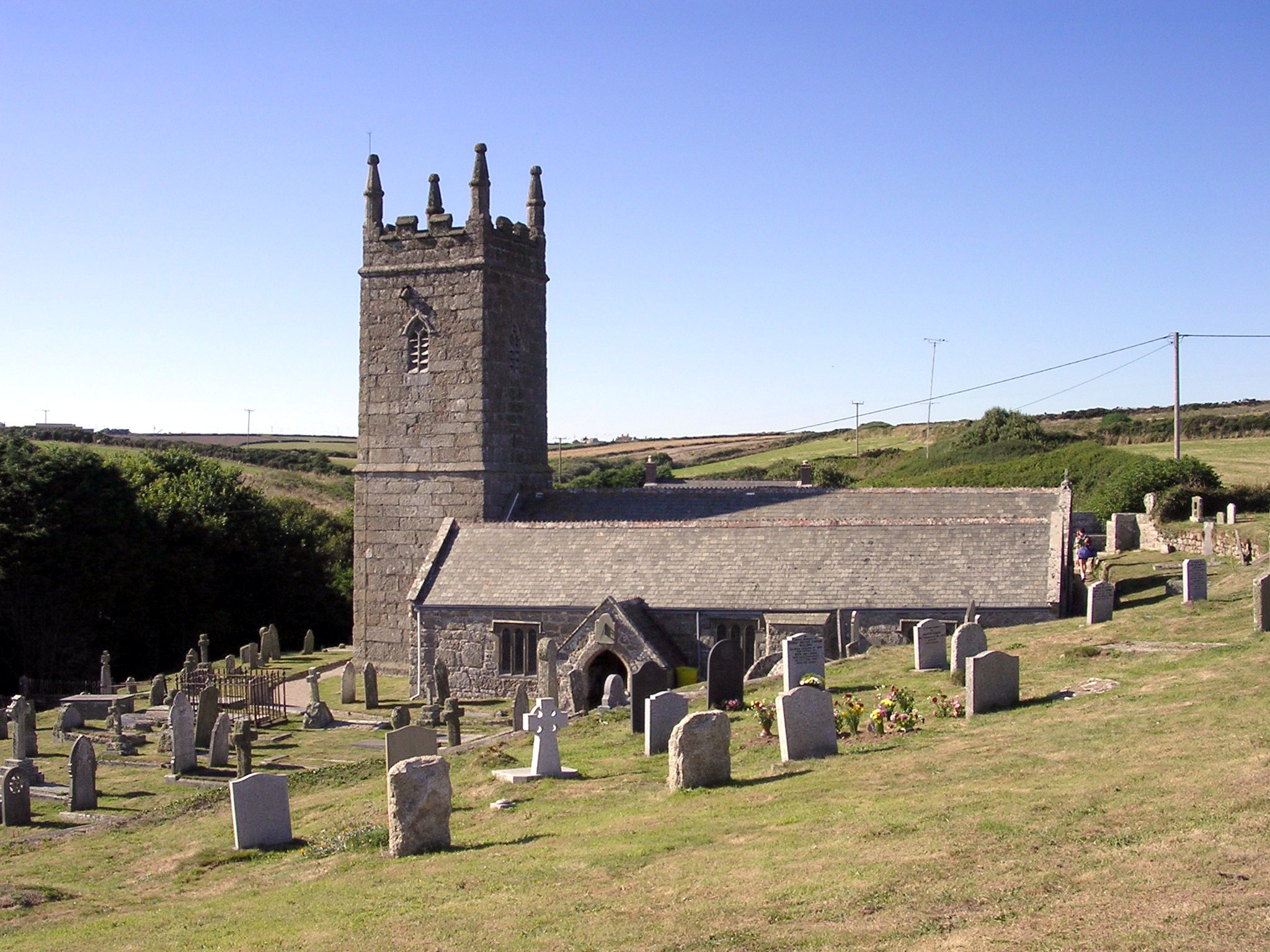 Parish church of St Levan, near Porthcurno, Cornwall